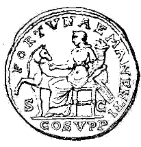 738 woodcuts illustrating the work A Dictionary of Roman Coins, Republican and Imperial (1889). To identify a coin please look at the filename to identify a page number, and check the Dictionary on numiswiki